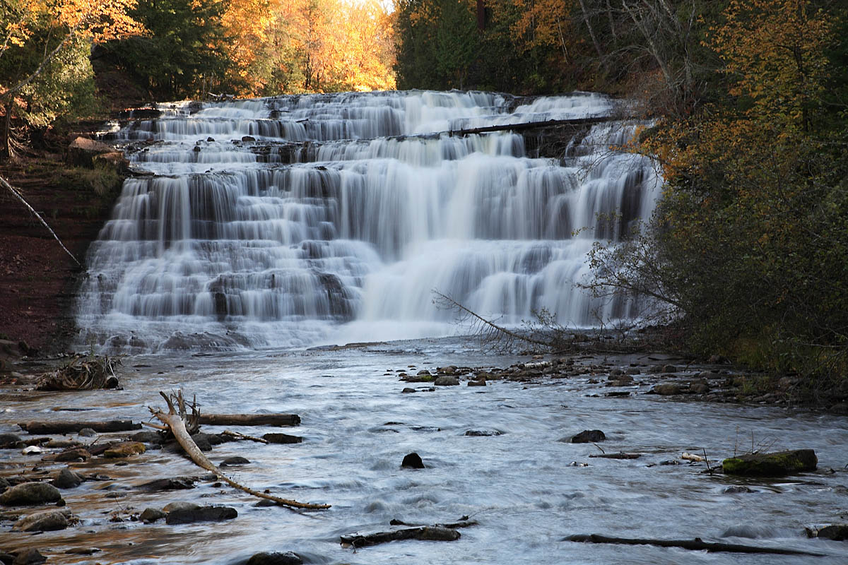 Agate Falls in Michigan's Upper Peninsula off Highway 28 near Bruce Crossing.